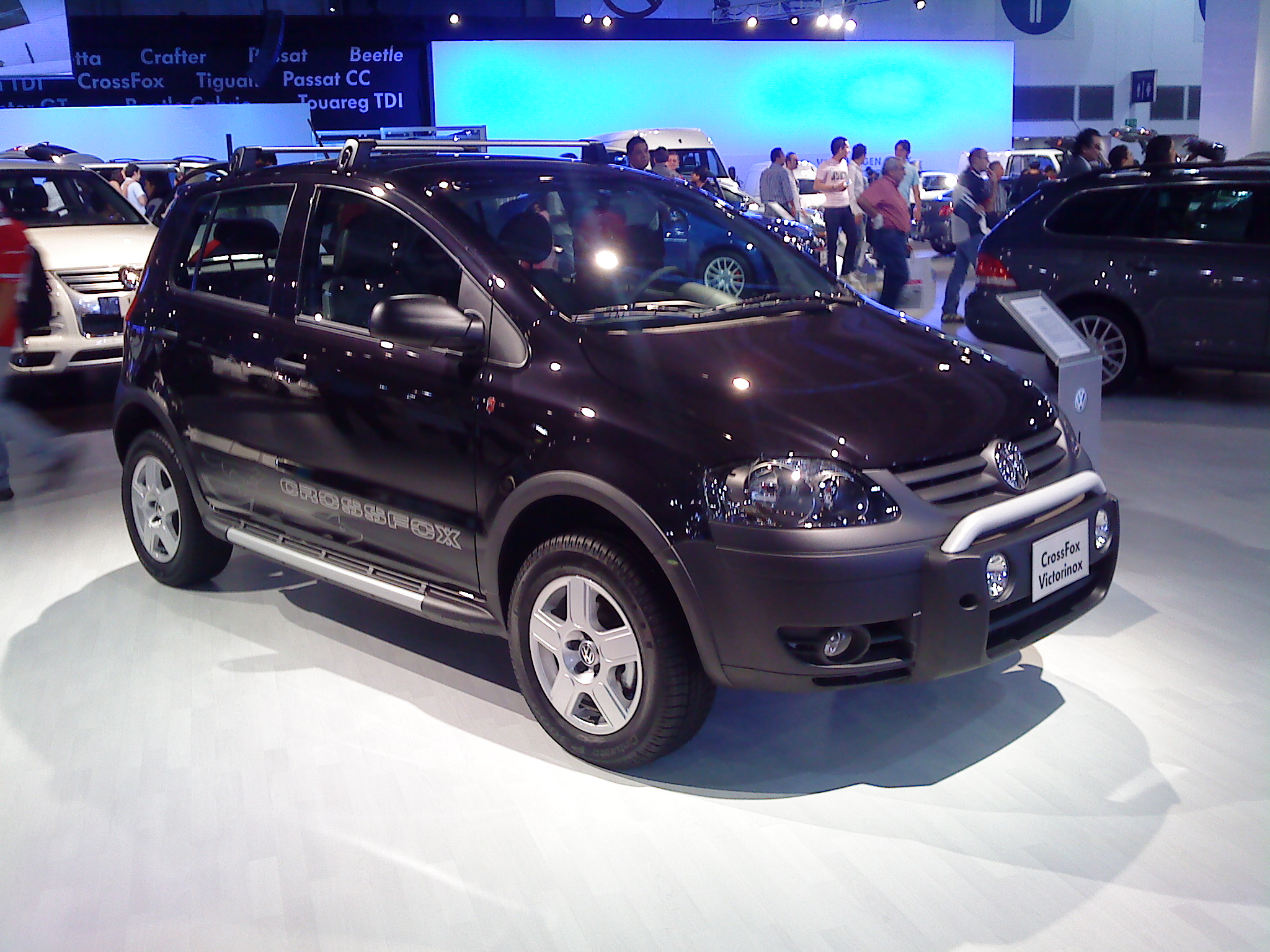 A Volkswagen CrossFox Victorinox Limited Edition at the 2008 SIAM.